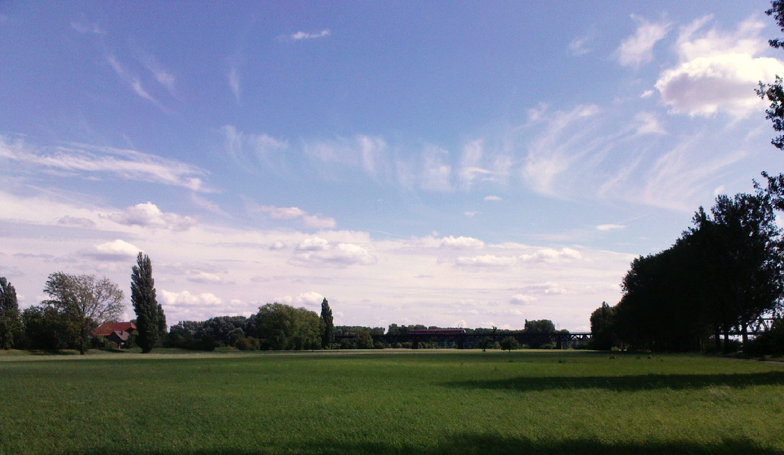 Maulbeeraue island